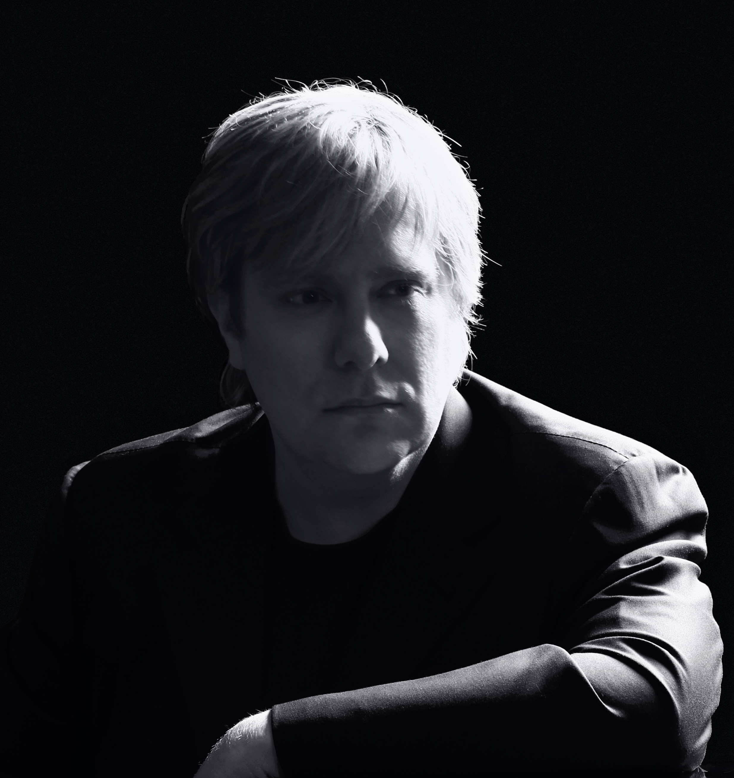 Video game composer Jeremy Soule, December 2010.